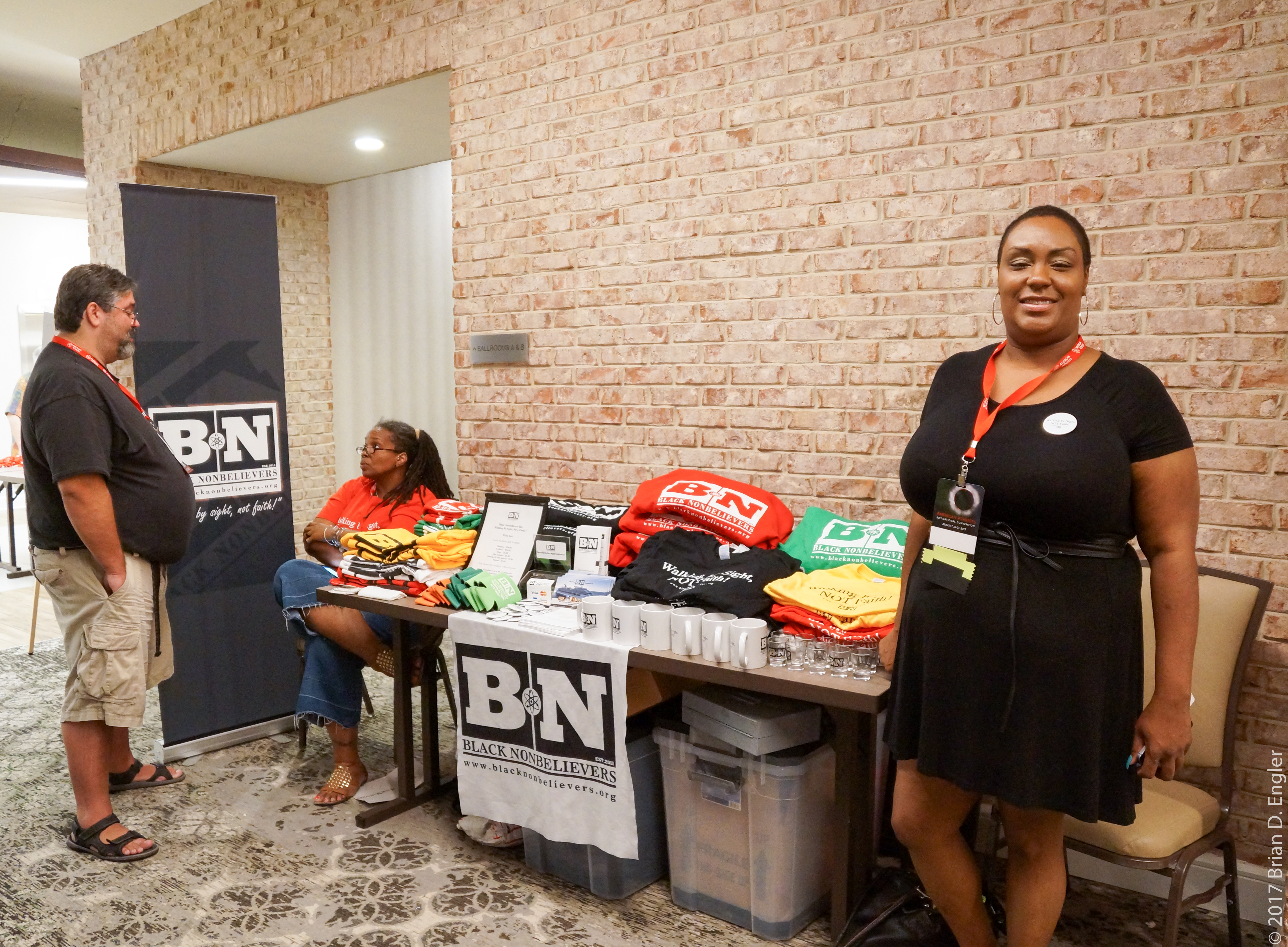 Black Nonbelievers, led by President Mandisa Lateefah Thomas, tabled at the American Atheists Convention, held August 19-21, 2017 in North Charleston, SC.